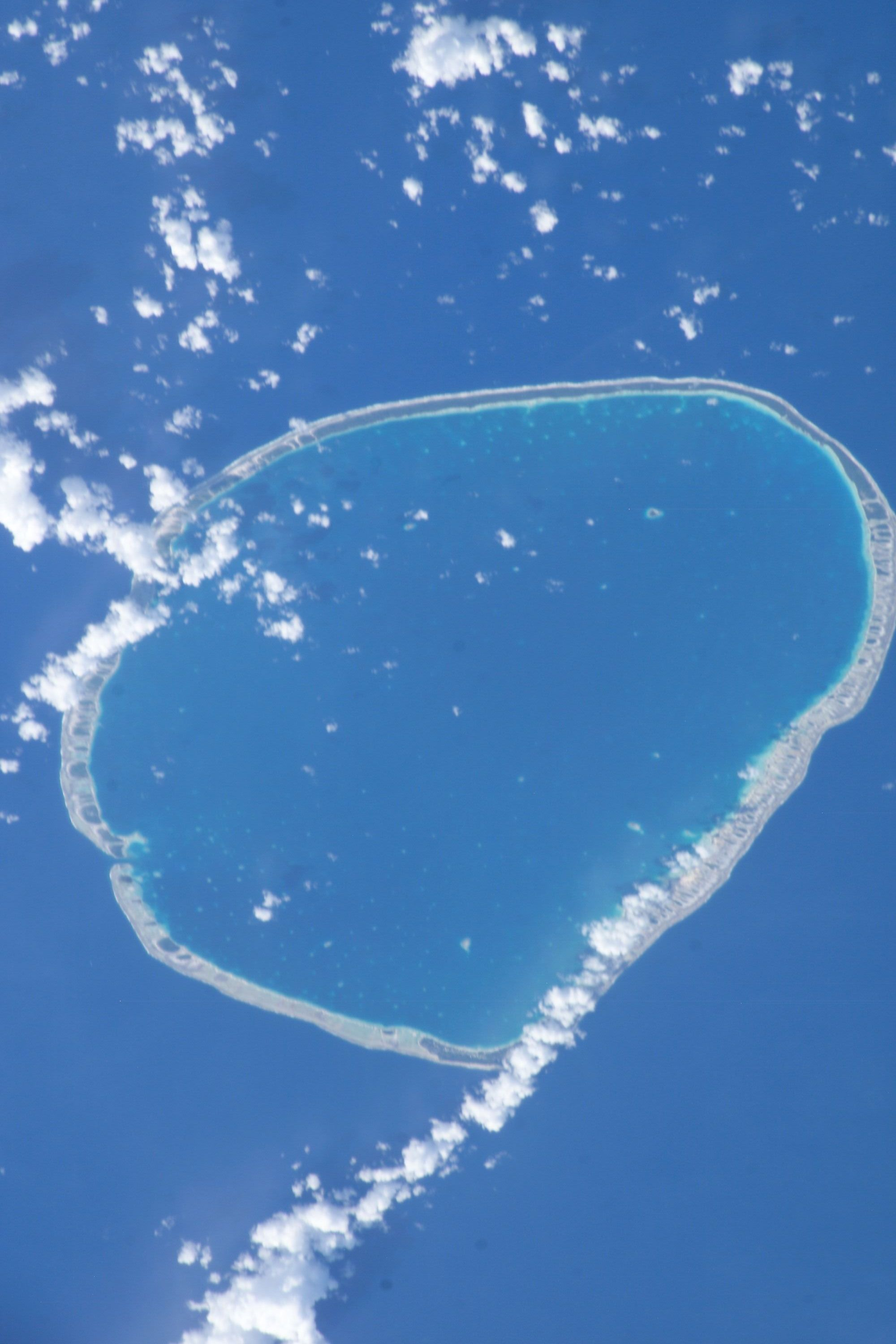 NASA astronaut image of Toau Atoll (Tuamotu Archipelago, French Polynesia) in the Pacific Ocean